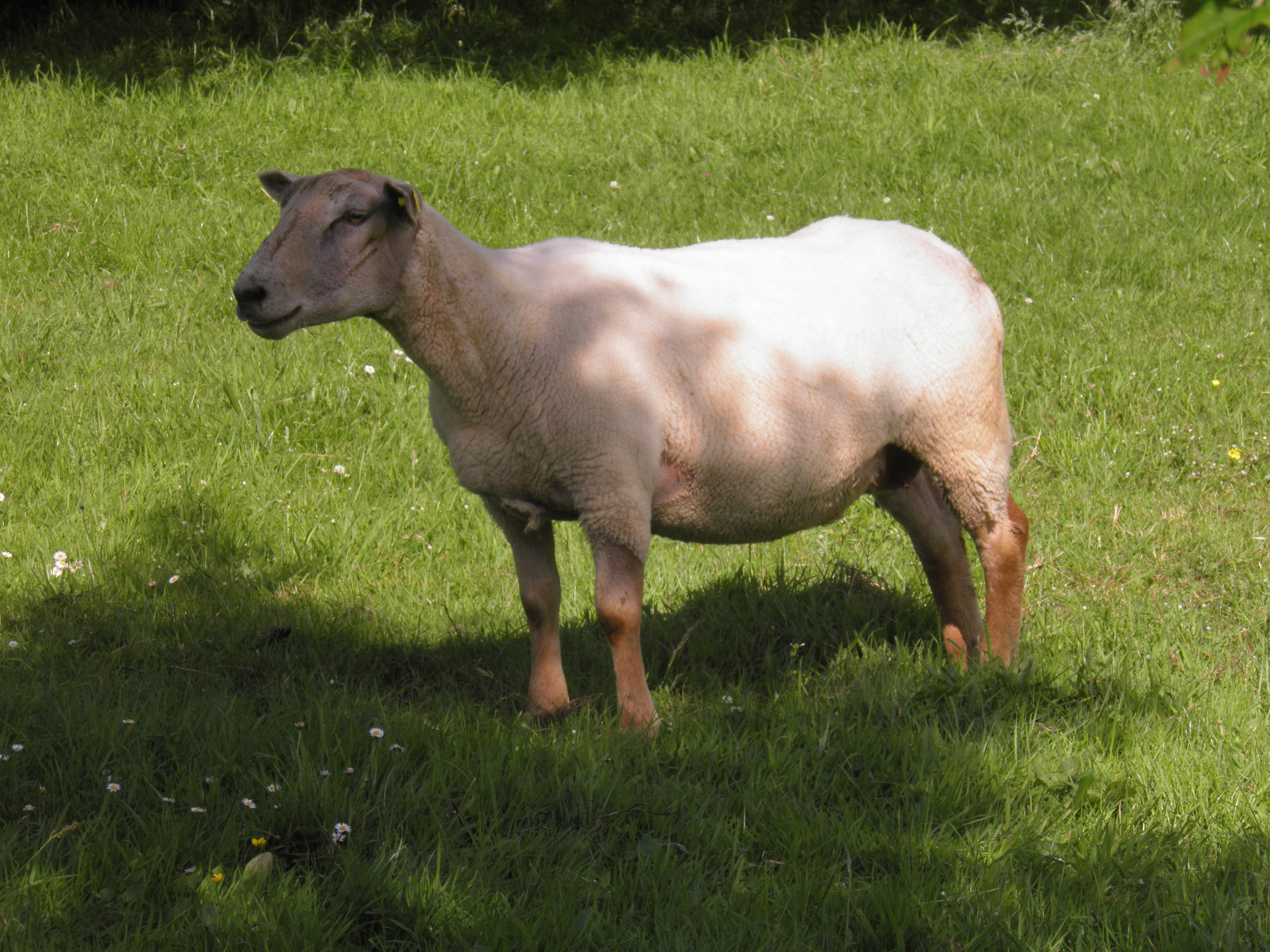 An image of a shaved Texel mix with Galway breed.